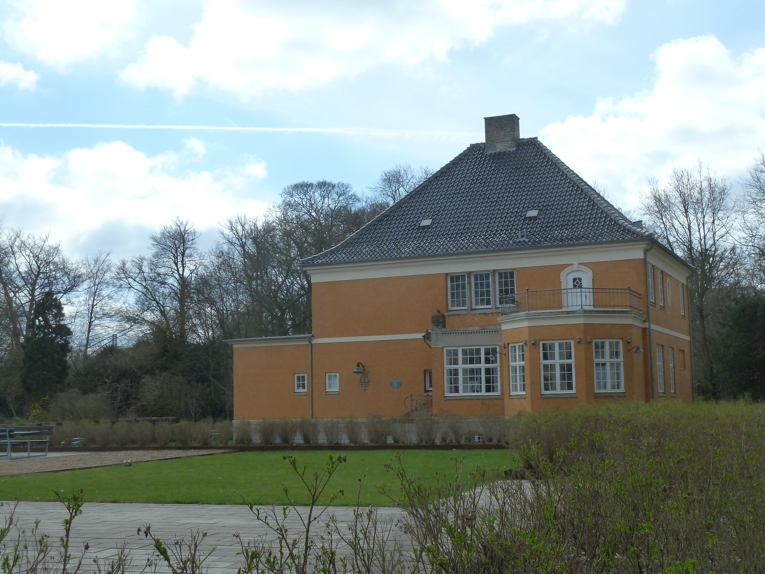 The former director's residence of Royal Copenhagen, now Porcelænshaven in the Frederiksberg district of Copenhagen, Denmark